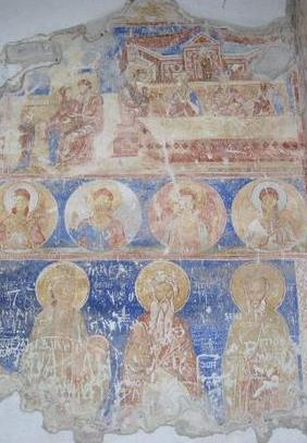 Frescos in St. Peter Church in Islad Golem Grad, Macedonia